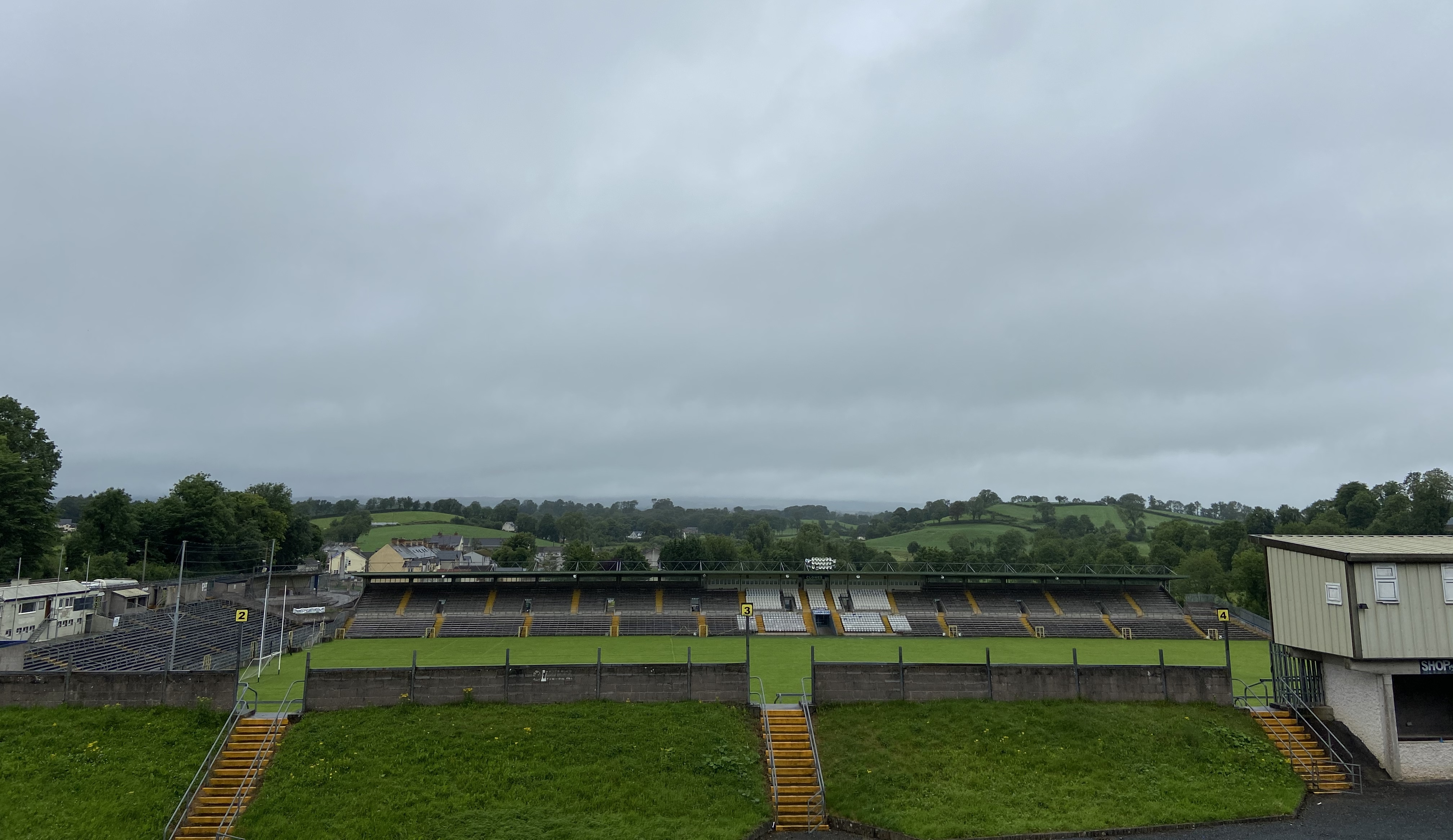 St. Tiernach's Park July 2020